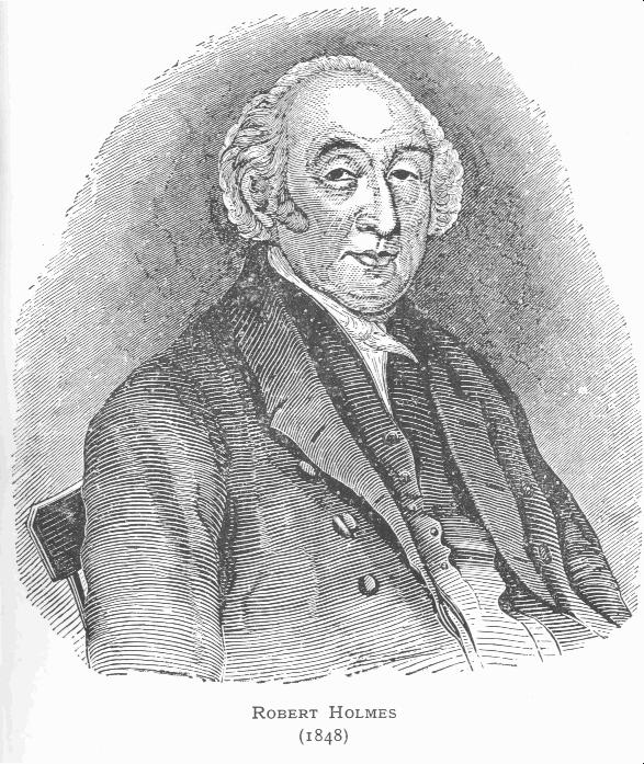 Image source Michael Doheny's The Felon's Track first published 1849